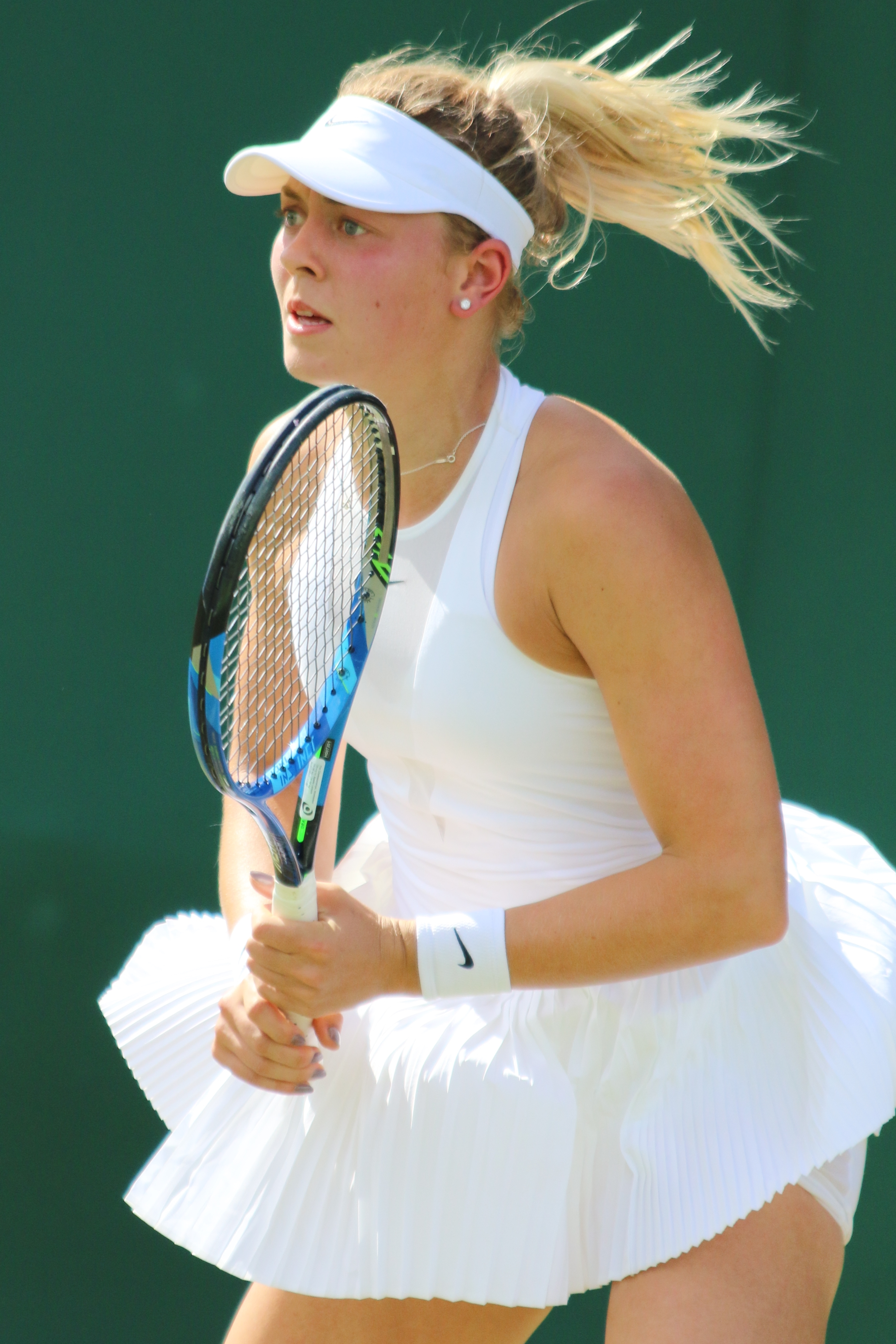 Witthoeft WM17 (8)